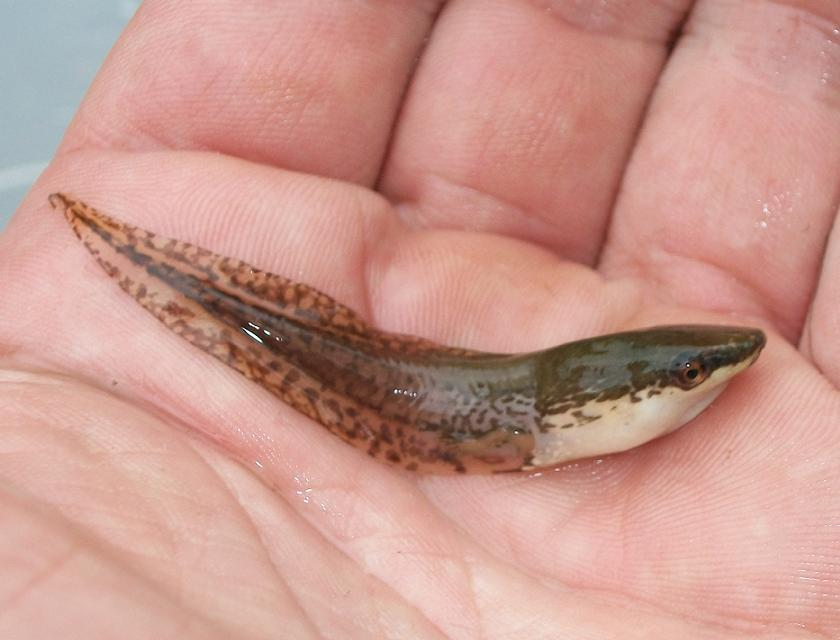 Greater Leaf-folding Frog (Afrixalus fornasini) tadpole caught in the lagoon of Amanzimtoti River, South Africa. (Hind legs are just developing).